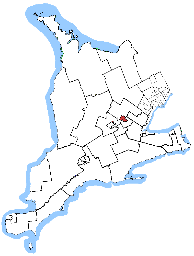 Map of the Guelph electoral district. Based on Earl Andrew's maps, created by SimonP.